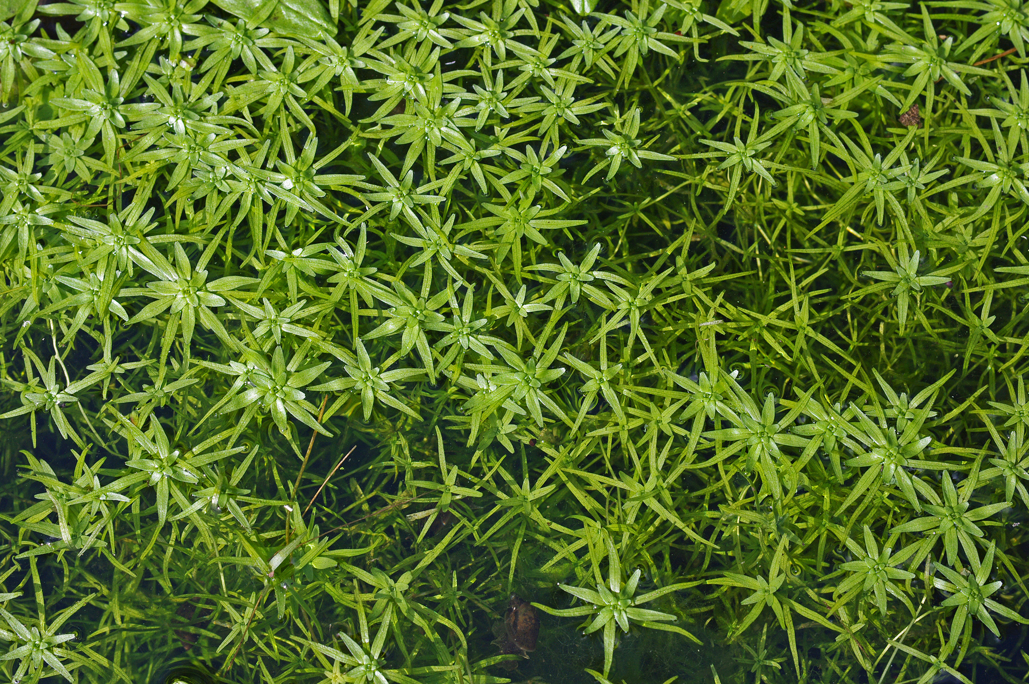 Occurrence of Water-starworts (Callitriche palustris (agg.) with lineal submersed leaves, and floating leaves just emerging. The genus Callitriche determination is extremely critical, only possible using the flowers and ripe fruits. Among the species group Callitriche palustris agg. the taxa C. cophocarpa, C. hamulata, C. obtusangula, C. palustris s.str., C. platycarpa, and C. stagnalis are summarized. The shown plants might belong to C. palustris s.str.